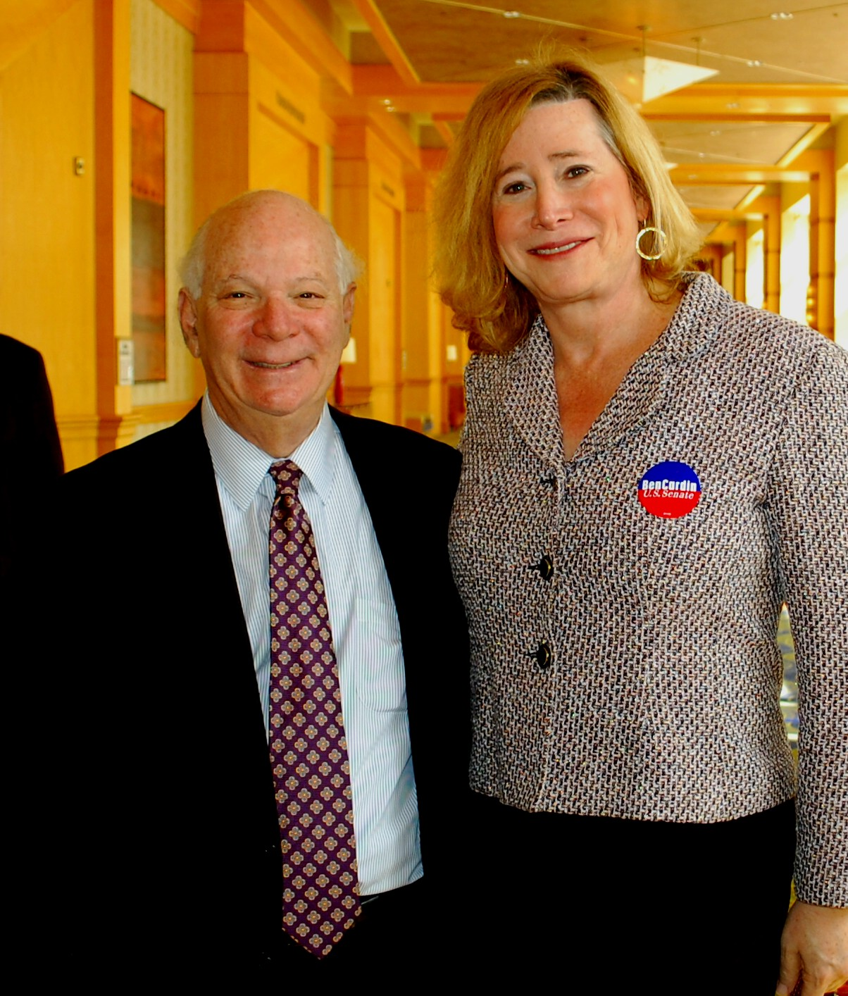 Senator Ben Cardin and Dana Beyer at an event on March 4, 2012 in North Bethesda Town Center, Rockville, MD, US